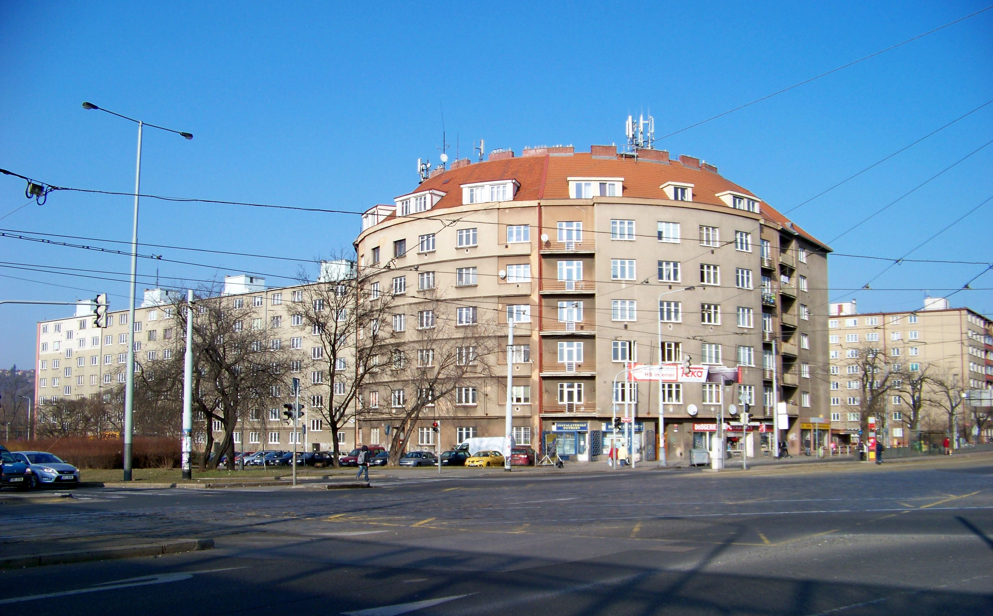 Prague-Libeň, the Czech Republic. Sokolovská street, Balabenka intersection, housing blocks at Na Balabence Square. - Google Maps - Google Earth